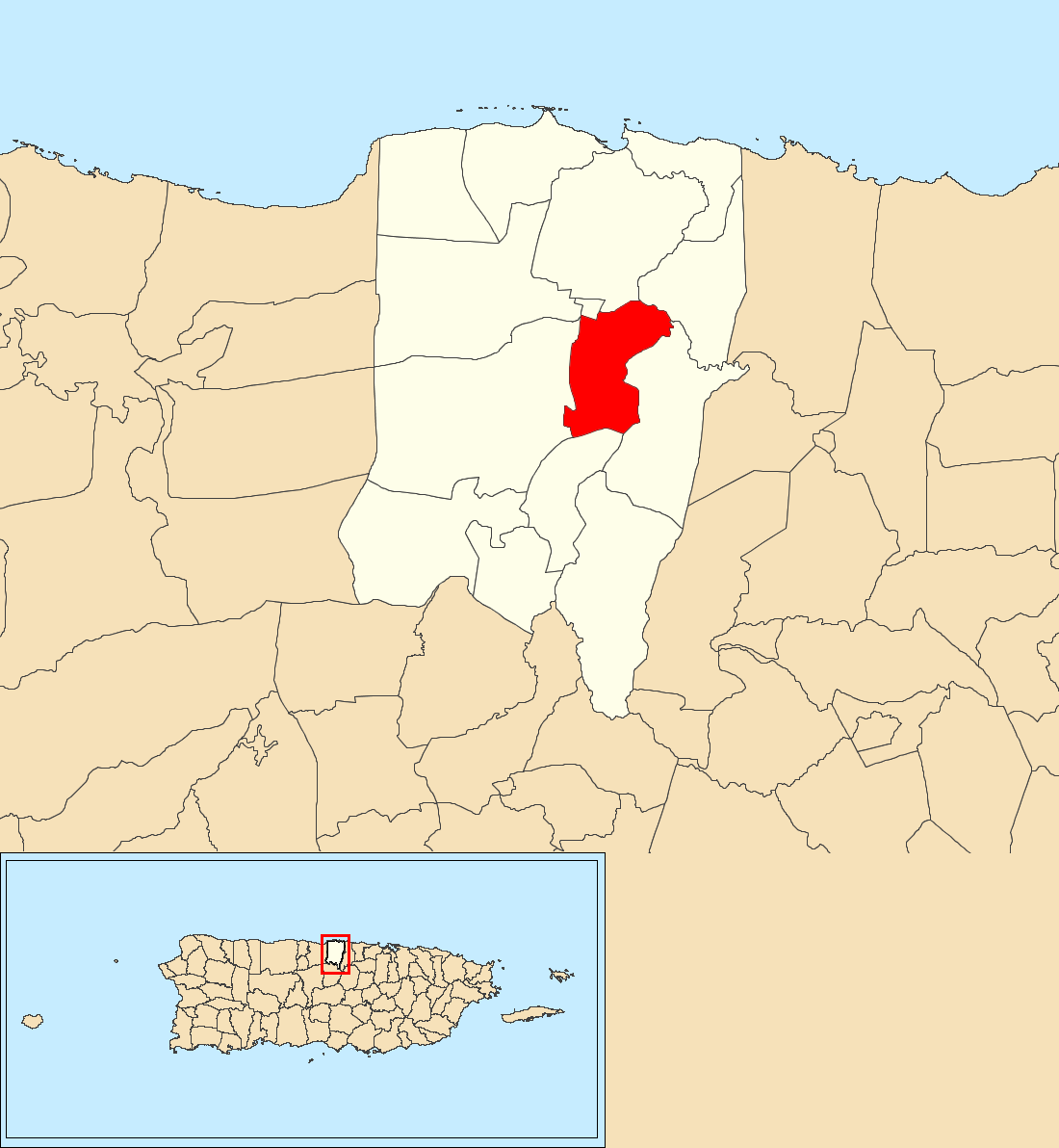 Río Abajo, Vega Baja, Puerto Rico locator map